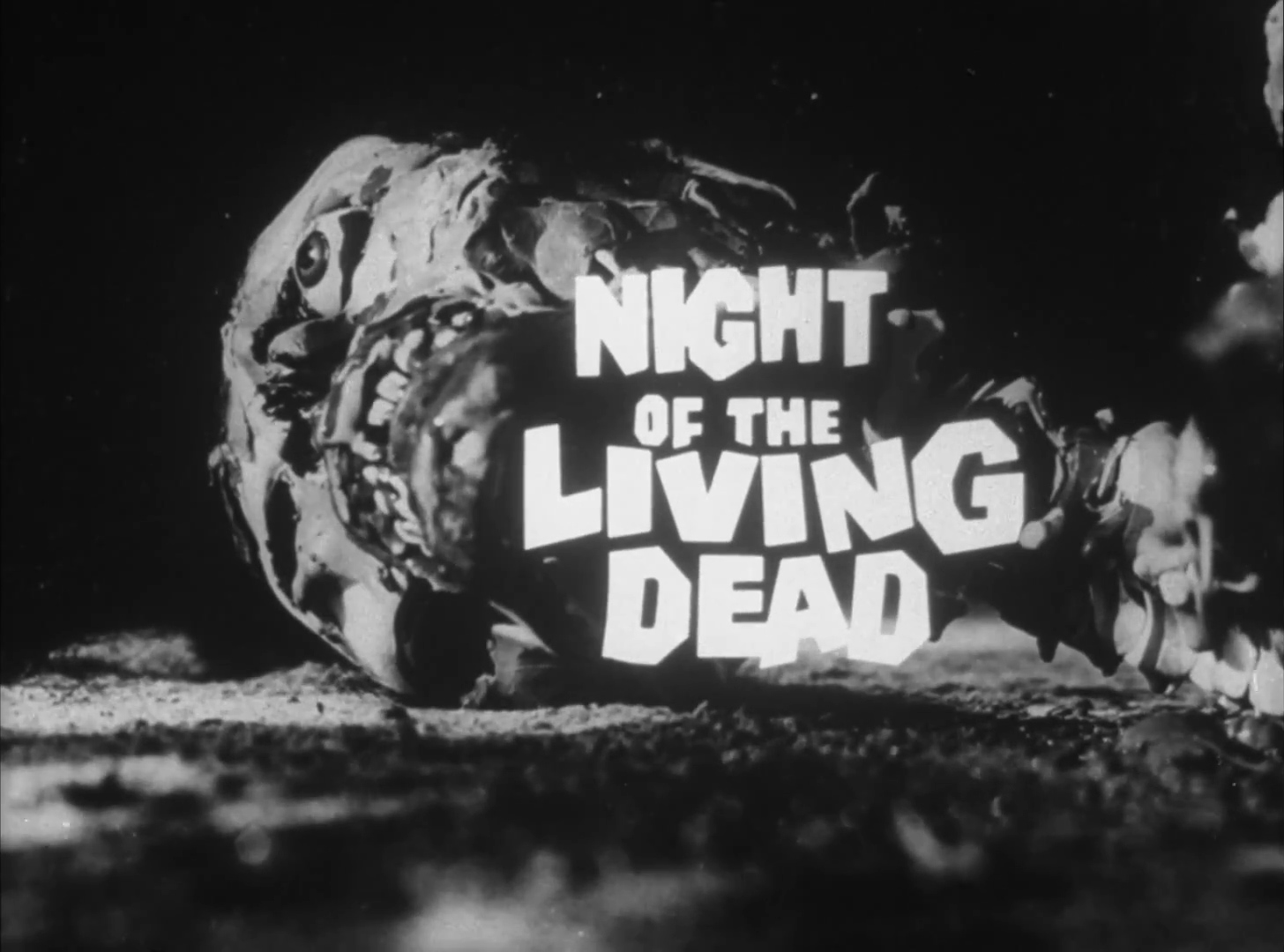 Screenshot from the trailer for the film Night of the Living Dead (1968).